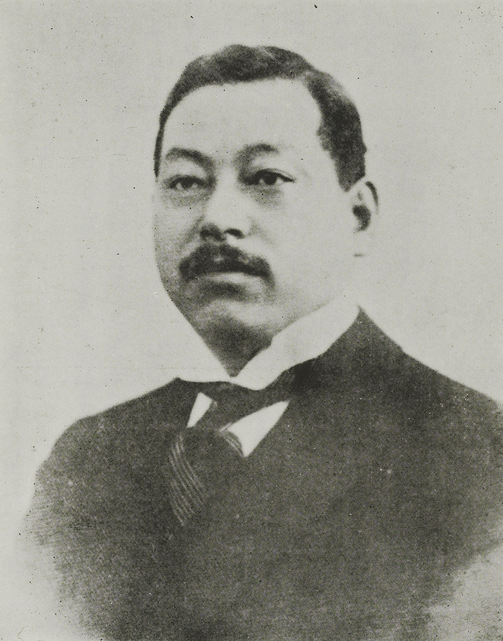 Portrait of Tazawa Yoshiharu (田沢義鋪, 1885 – 1944)